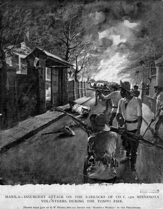 Manila--insurgent attack on the barracks of Co. C, 13th Minnesota Volunteers, during the Tondo Fire.